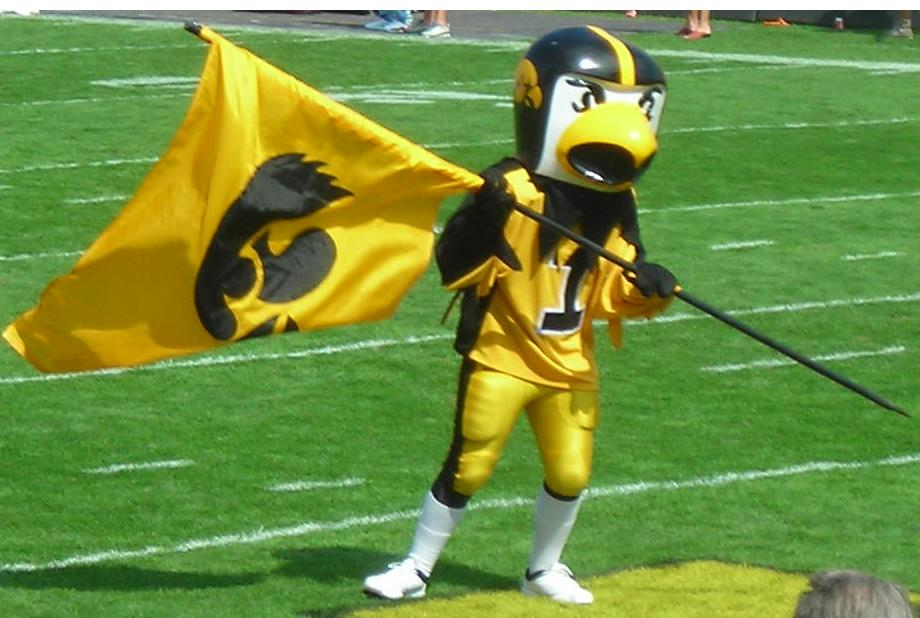 Photo taken by me of Herky the Hawkeye holding a Tigerhawk flag.